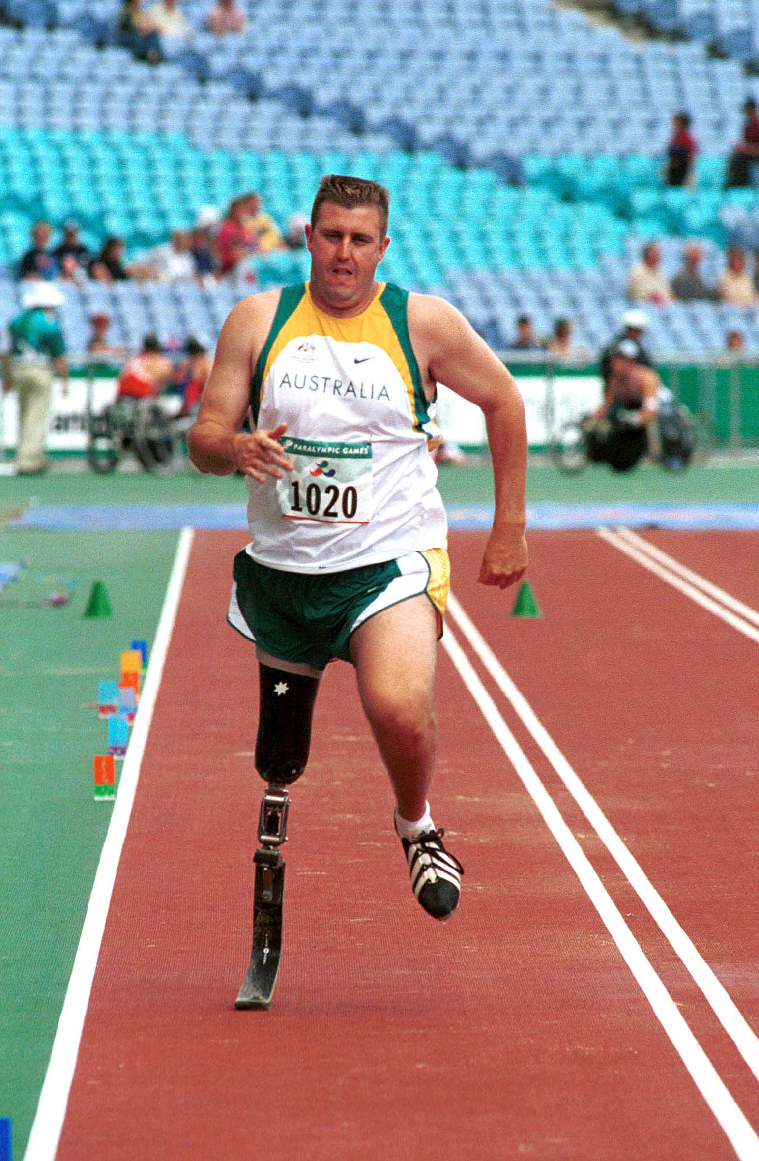 Action shot of Australian field pentathlete Wayne Bell sprinting in the long jump event during pentathlon competition at the 2000 Sydney Paralympic Games, Day 04